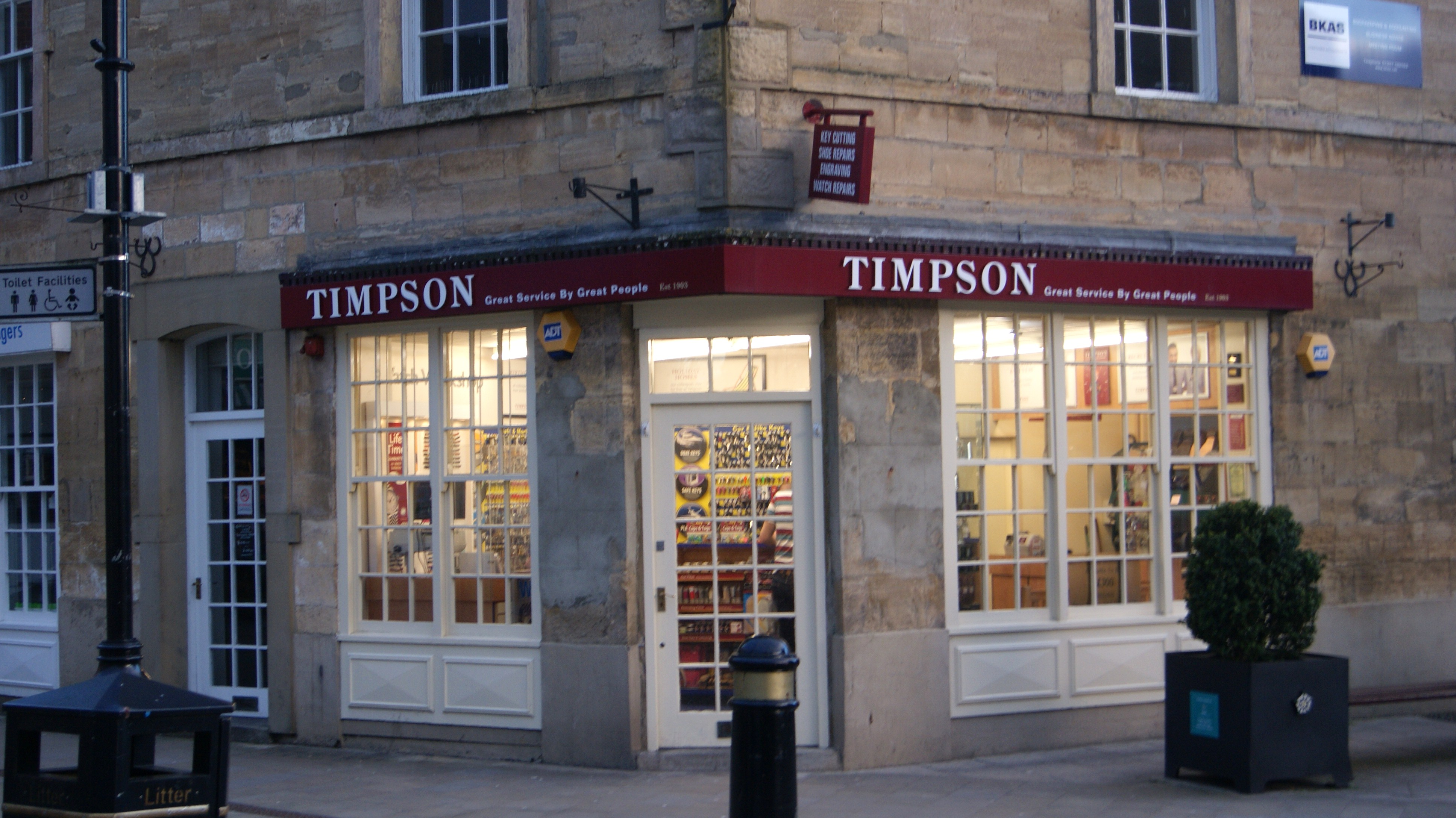 Timpson, Market Place, Wetherby, West Yorkshire. Taken on the evening of Wednesday the 6th of February 2013.